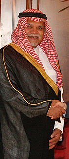 Bandar bin Sultan, Secretary-General of the National Security Council of Saudi Arabia